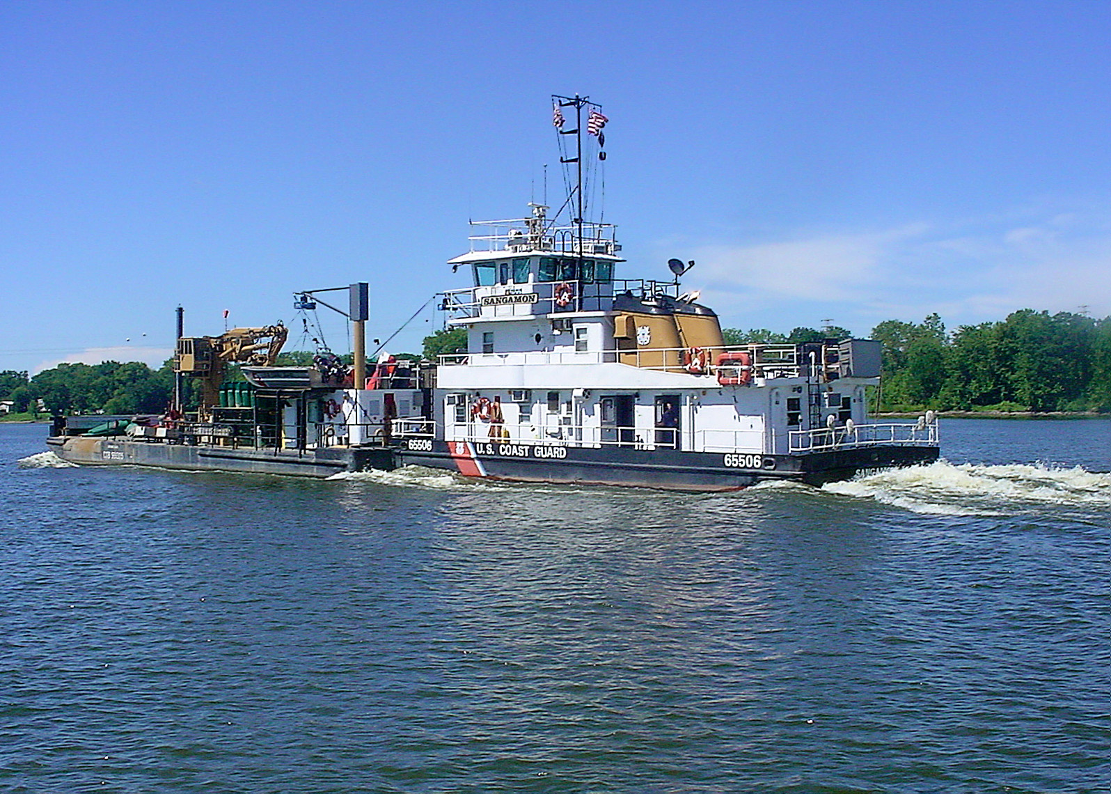 U.S. Coast Guard Cutter Sangamon (WLR-65506) heads upstream on the Mississippi River above St. Louis.